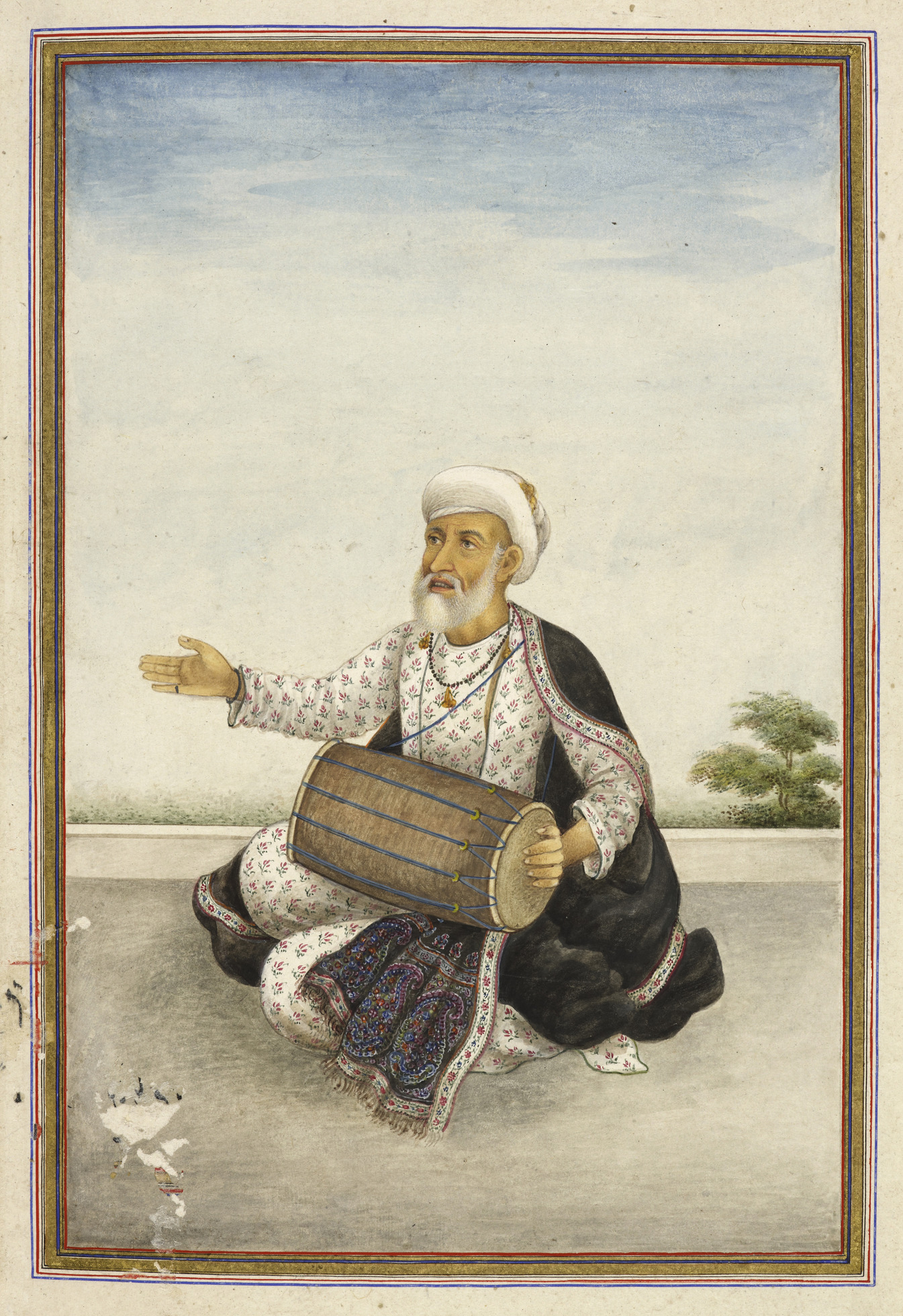 ‘Kavval’, a sub-caste of the large Muslim caste of ‘Mirasis’ or singer/genealogists. A man beating a drum.